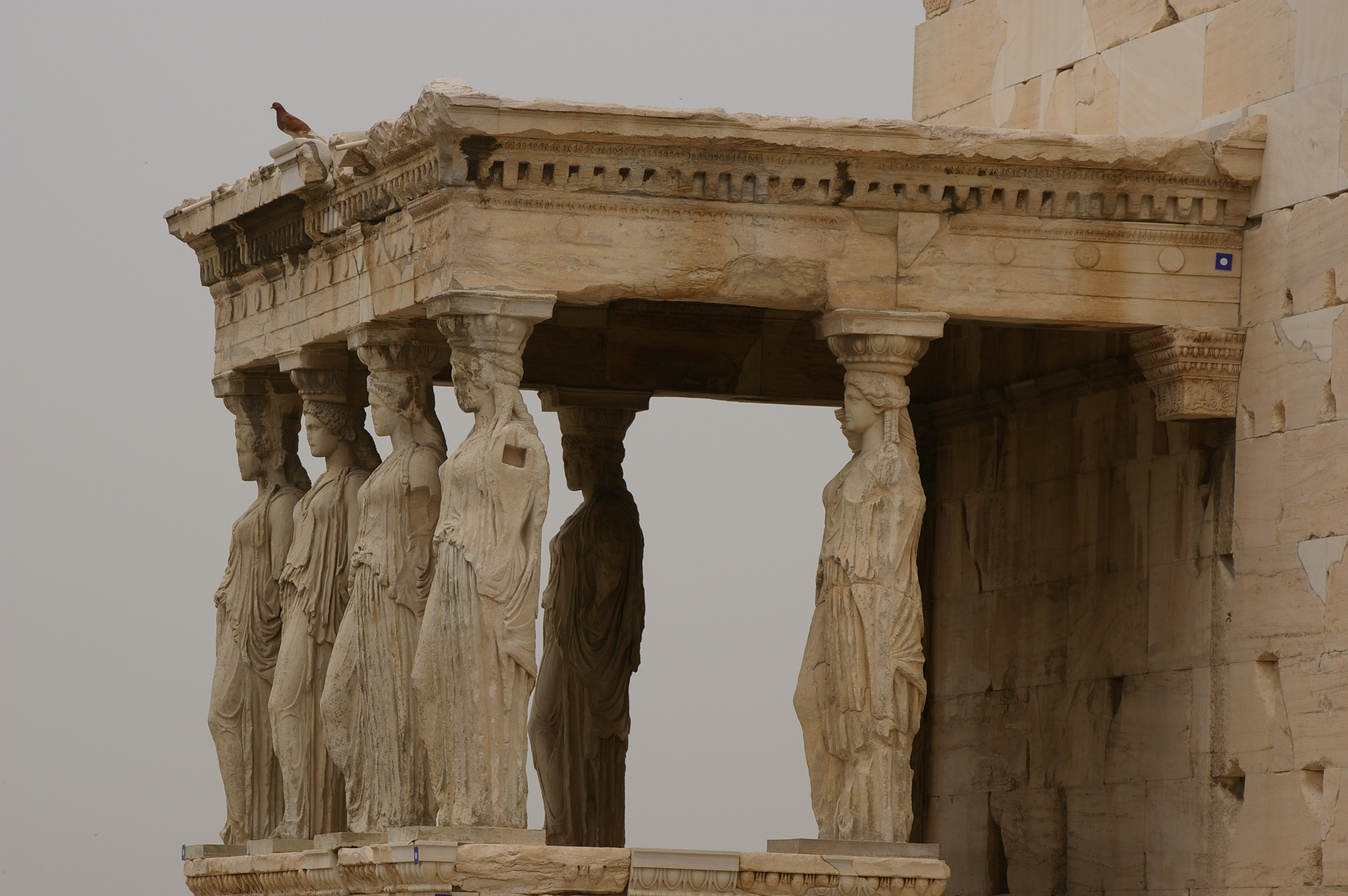 The Caryatid Porch of the Erechtheion, Athens.